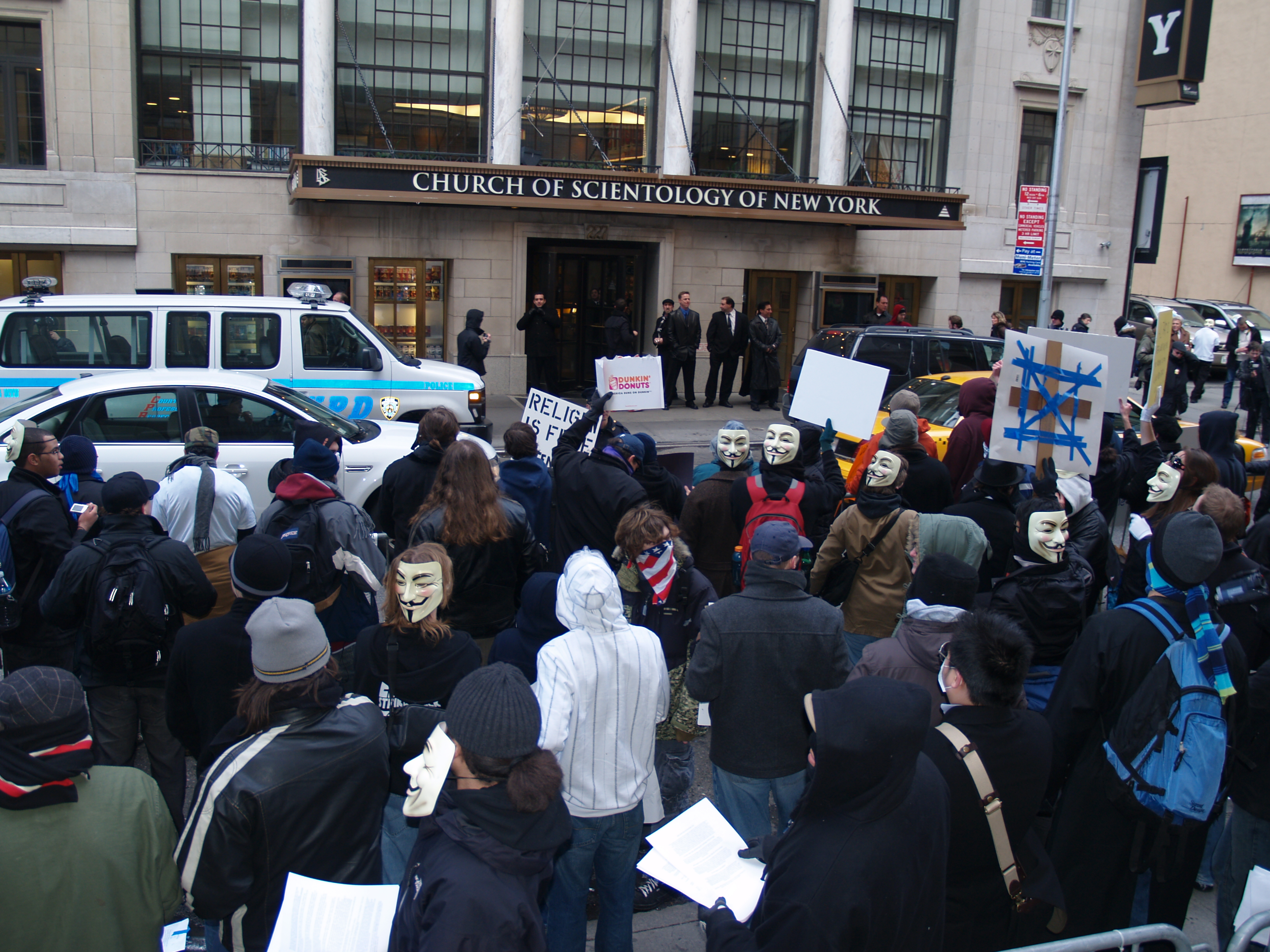 Protest by an Internet group calling itself 'Anonymous' against the practices and tax status of the Church of Scientology. The protesters believe the church is a cult that harms it practitioners, and that its tax-free status as a church should be revoked, as, they claim, it appears to be more of a corporation.